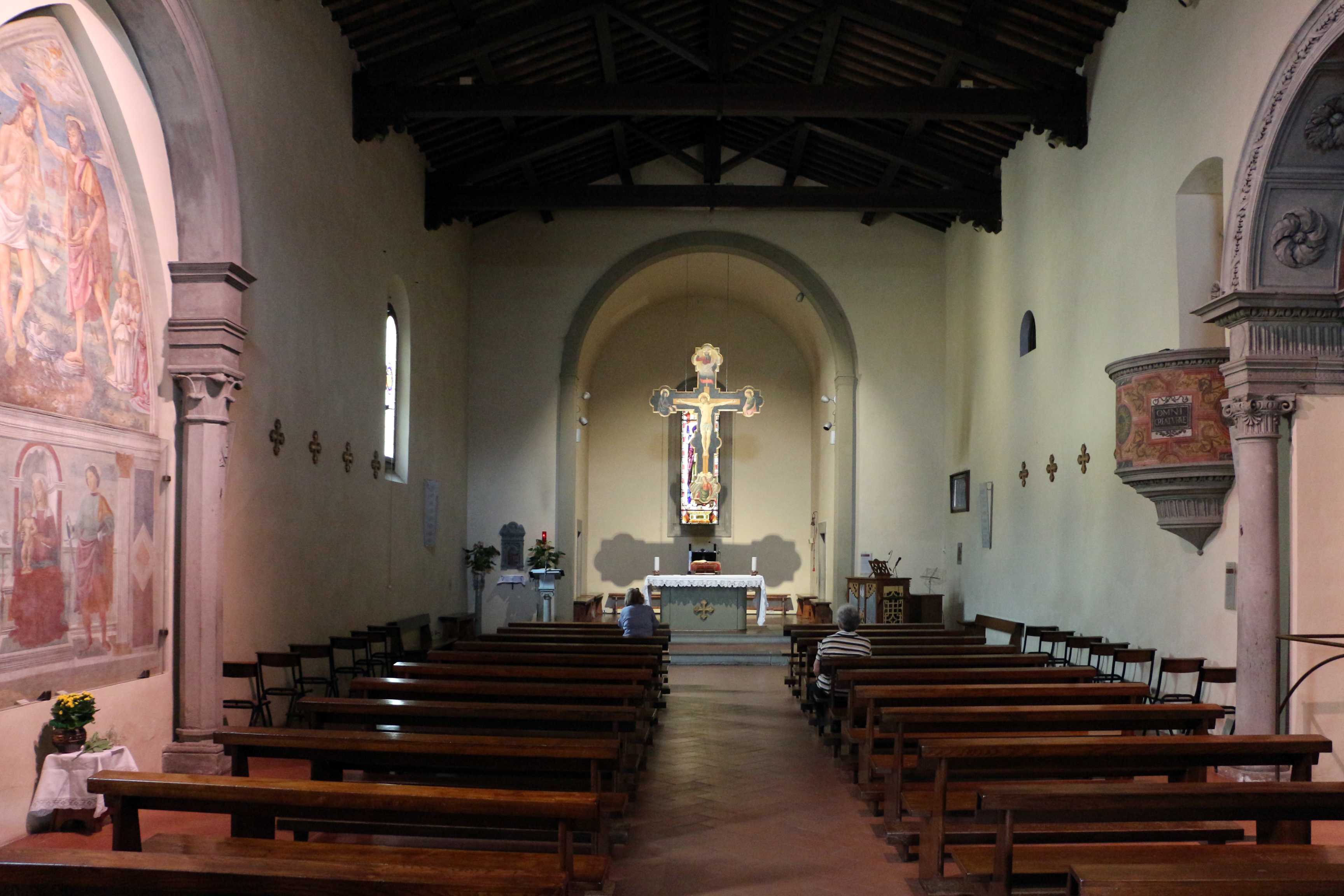 Sant'Andrea (San Donnino)